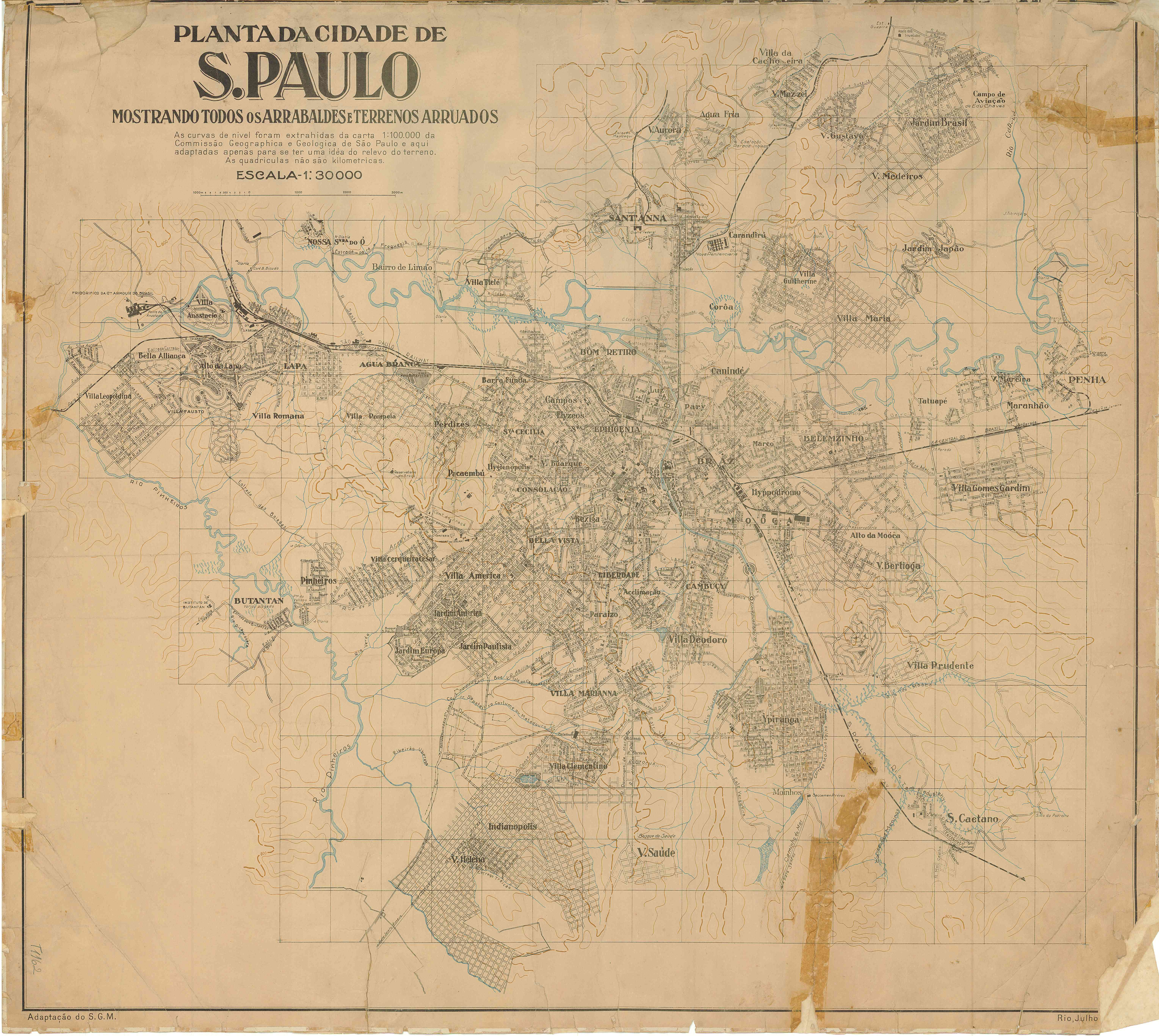 Map of the City of São Paulo, 1924. Railway lines in black. Scale 1:30.000